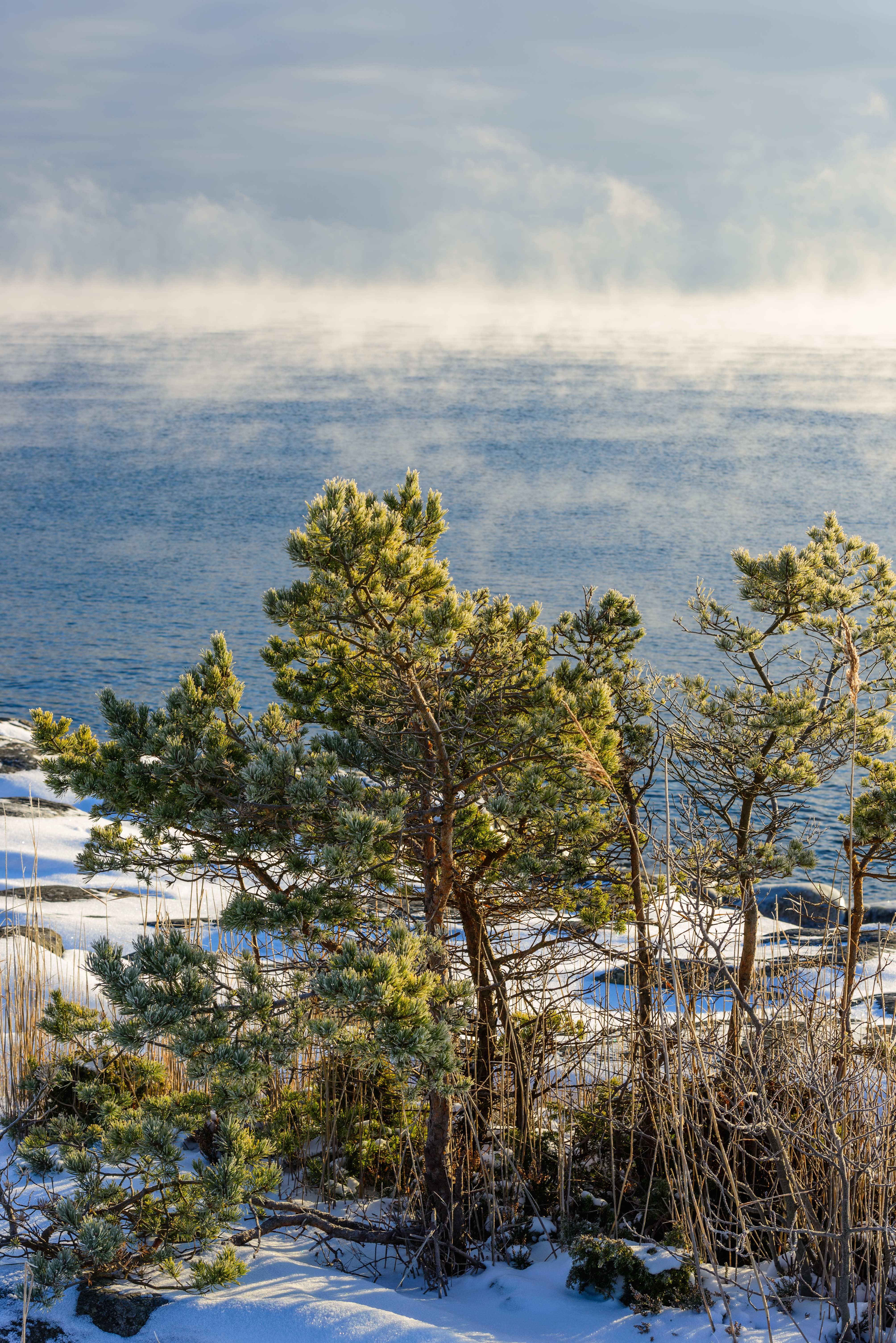 Scots Pine (Pinus sylvestris), east part of Utö, Haninge Municipality, Stockholm archipelago. In the background the Baltic Sea, with some sea smoke.